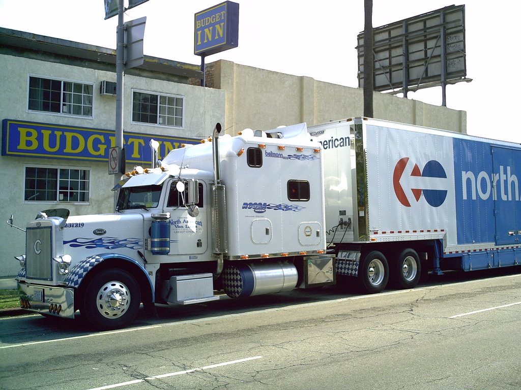 Peterbilt dans Hollywood . Photo Patrice Raunet 2006